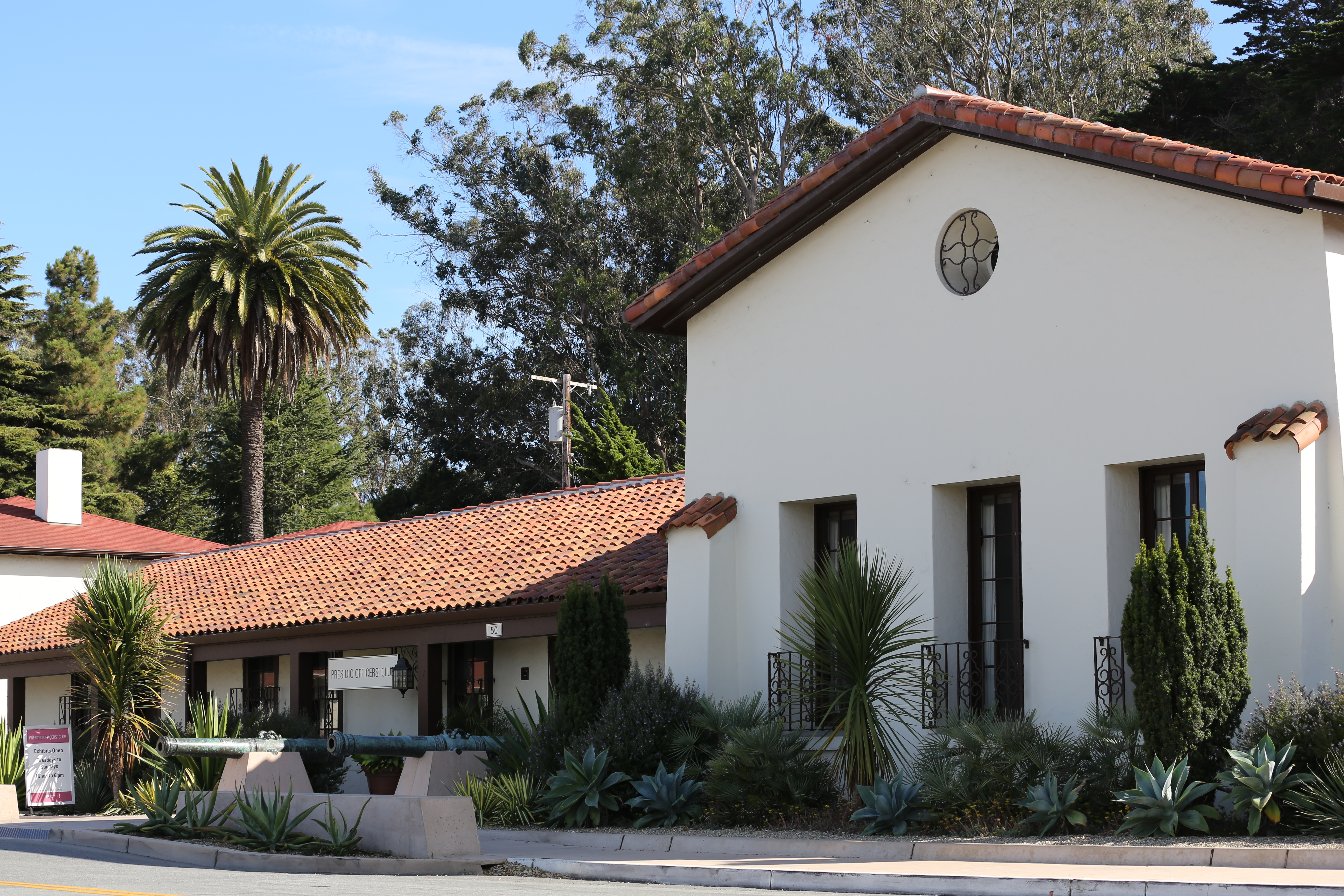 Presidio of San Francisco Officer's Club (TK2) - oldest adobe building in San Francisco